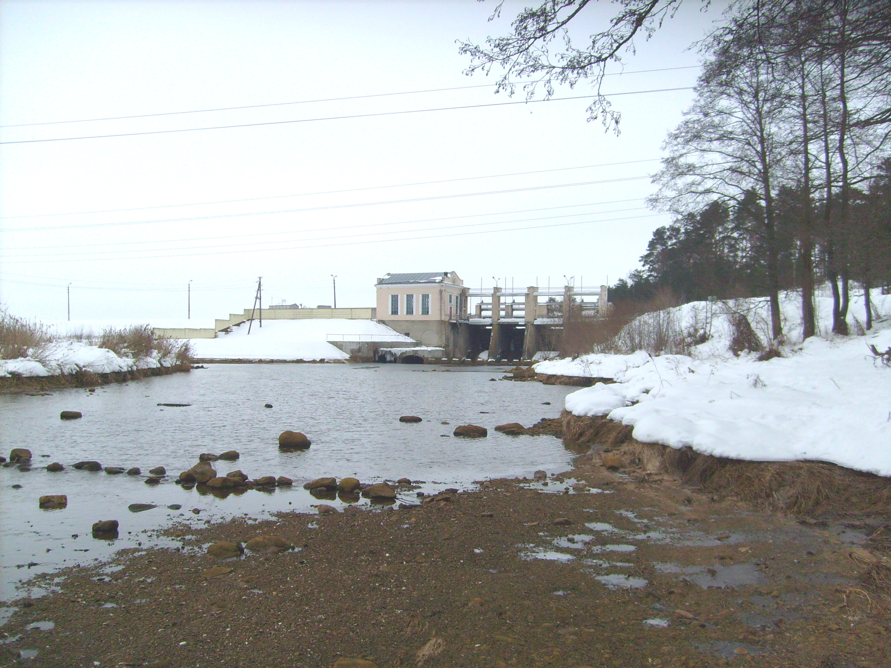 Teterino Hydroelectric Power Station